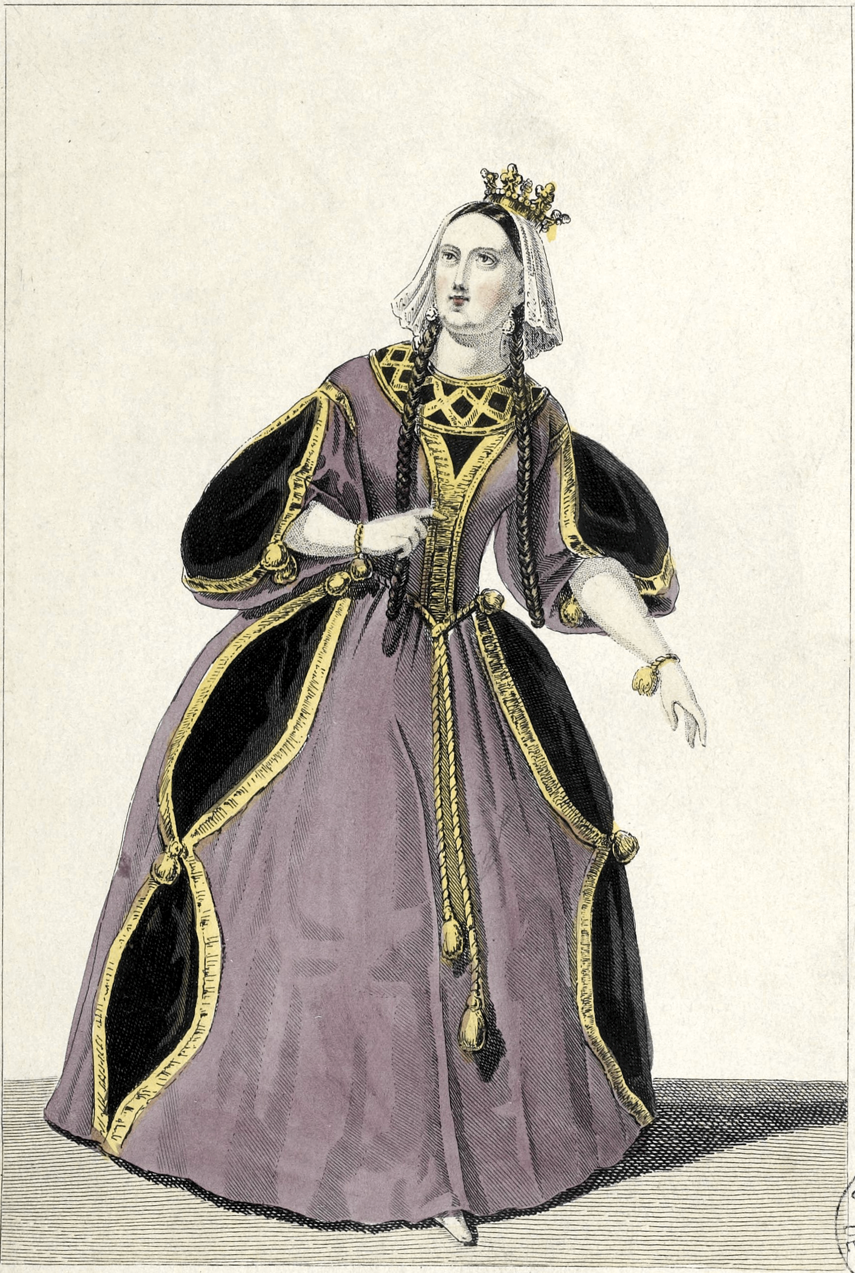 Mademoiselle George (1787–1867) as Vallombra in les 7 Infans de Lara.